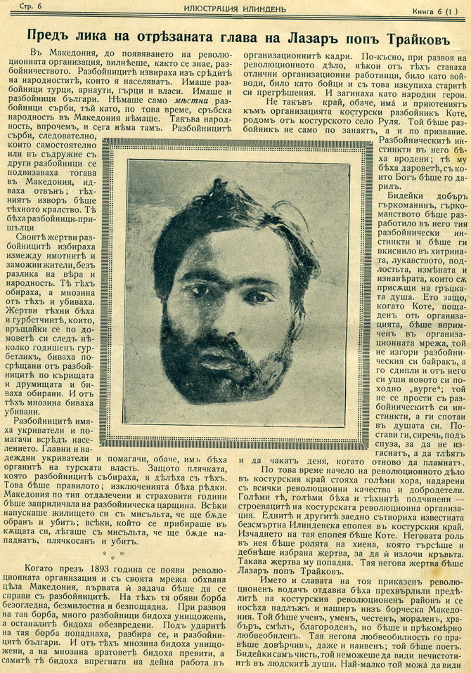 The severed head of Lazar Poptrajkov